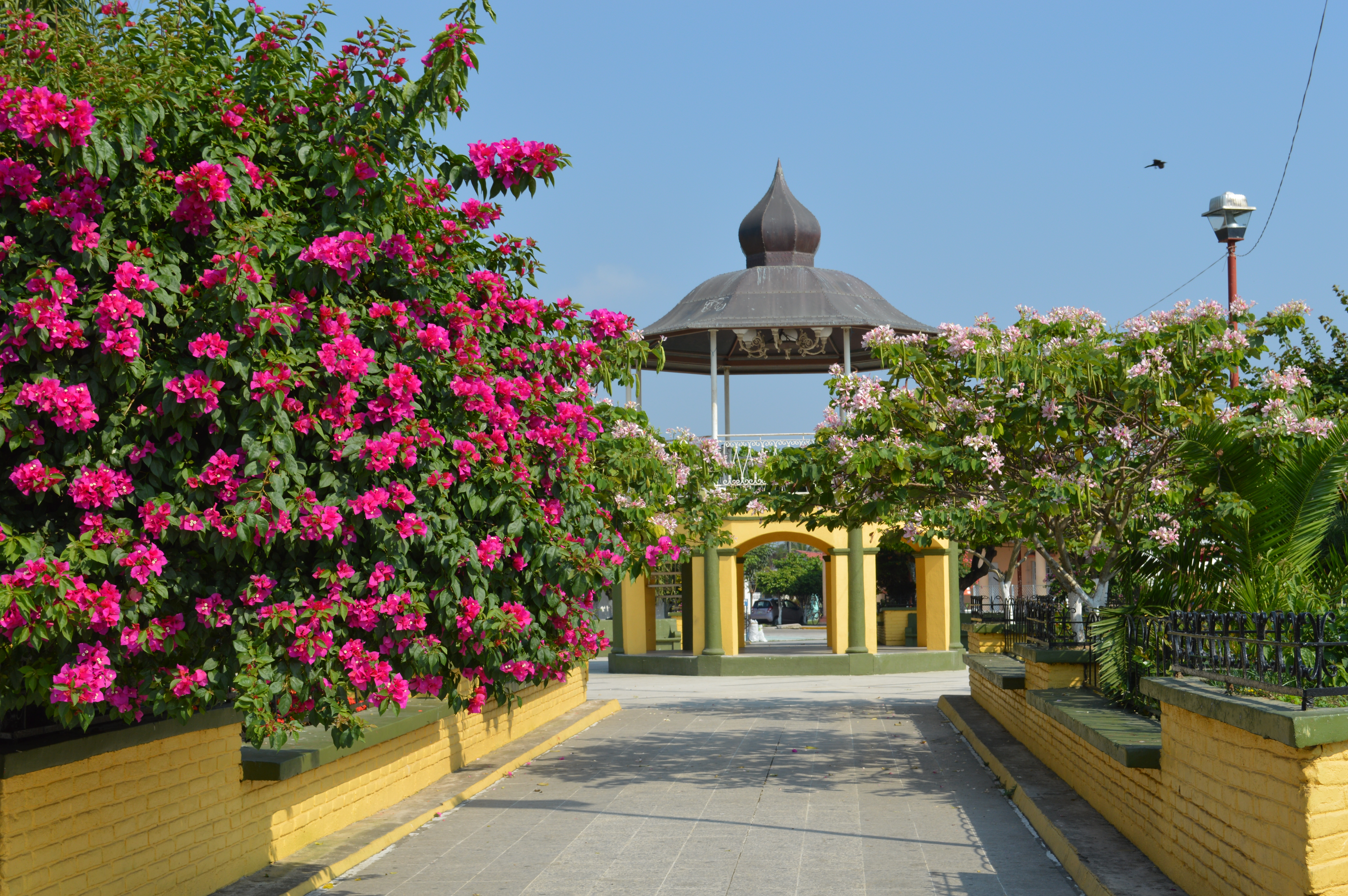 Kiosk in main plaza in Otatitlan, Veracruz, Mexico